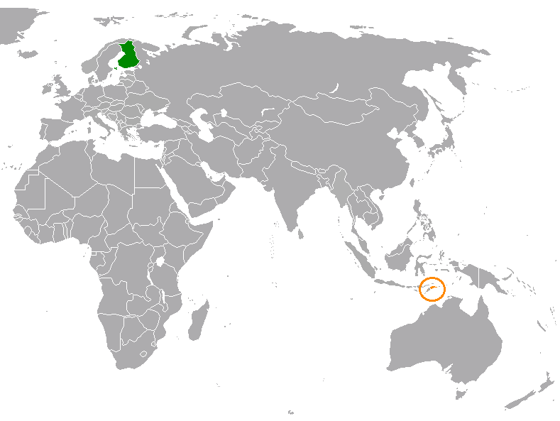 Map showing locations of both Finland and East Timor